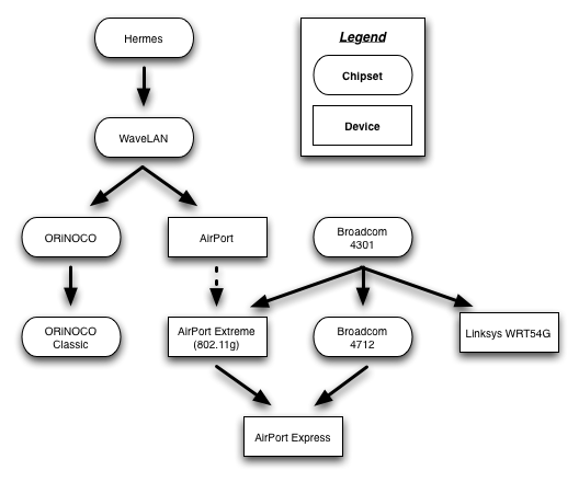 Replacement for Image:Chipsets.png This diagram image could be re-created using vector graphics as an SVG file. This has several advantages; see Commons:Media for cleanup for more information. If an SVG form of this image is available, please upload it and afterwards replace this template with vector version available|new image name . It is recommended to name the SVG file "Chipsets2.svg" - then the template Vector version available (or Vva) does not need the new image name parameter. Made with OmniGraffle.